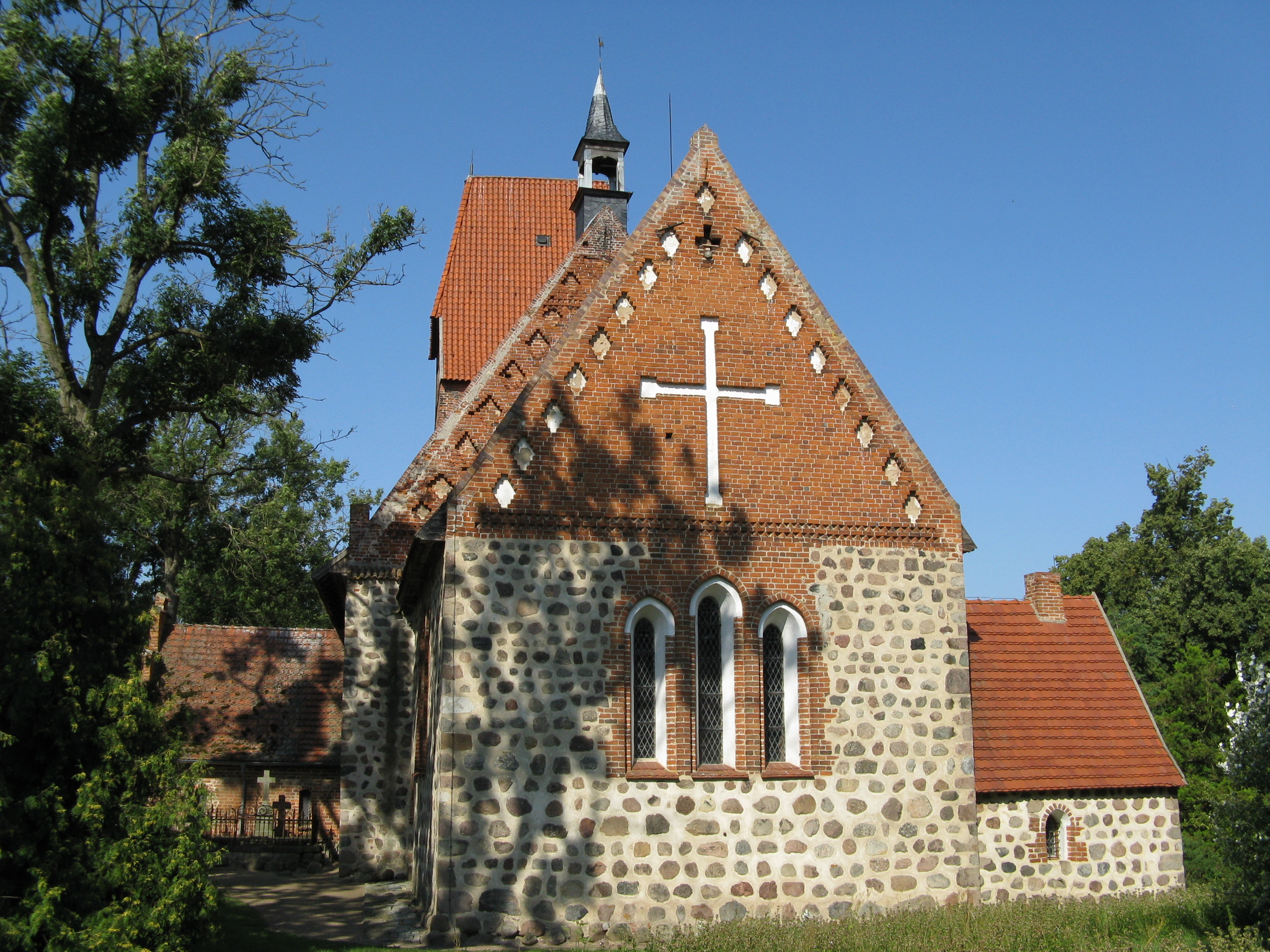 Church in Recknitz, disctrict Güstrow, Mecklenburg-Vorpommern, Germany